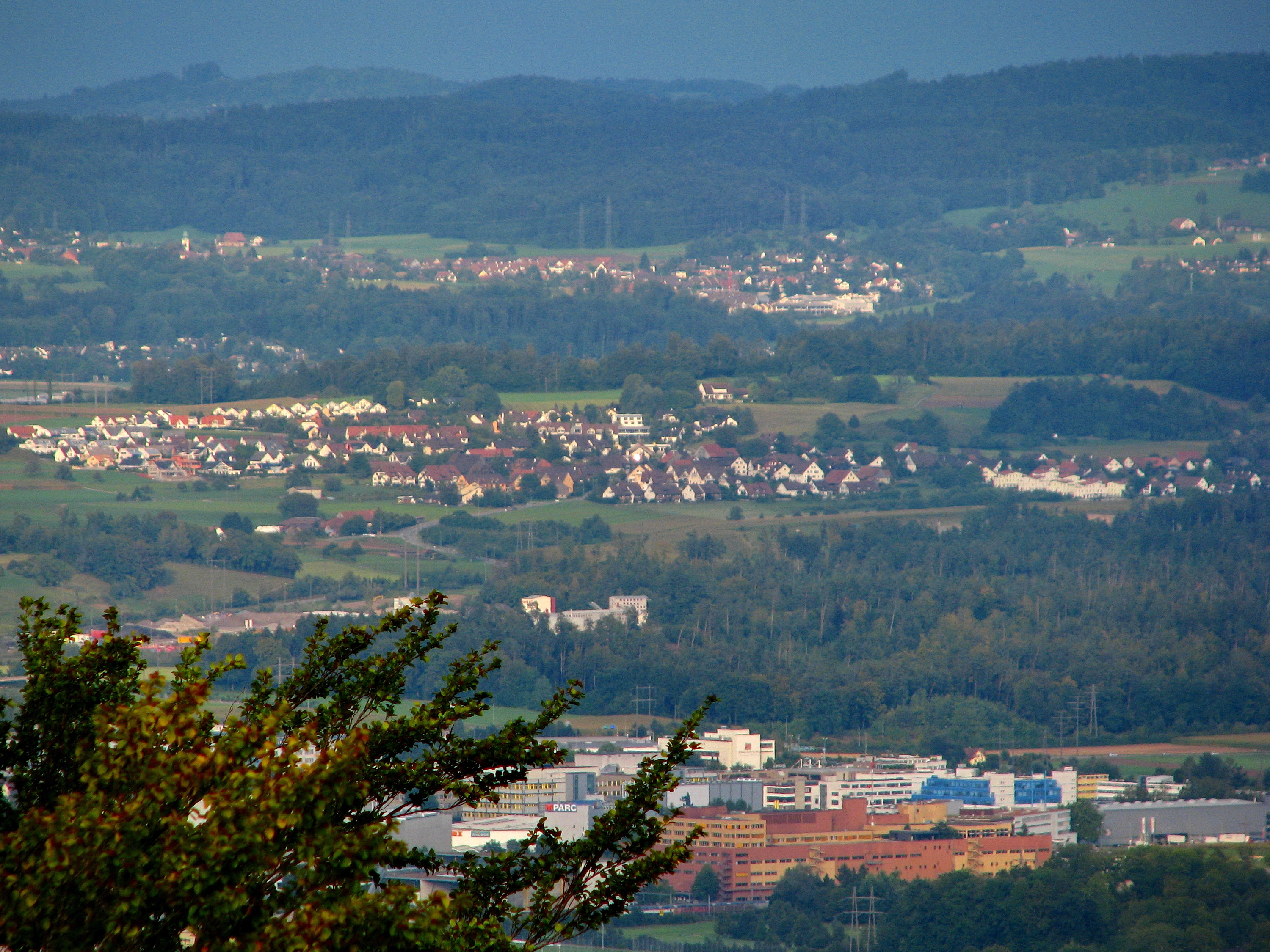 Schwerzenbach (parts of) and Volketswil as seen from the Loorenkopf tower on Adlisberg (Switzerland)